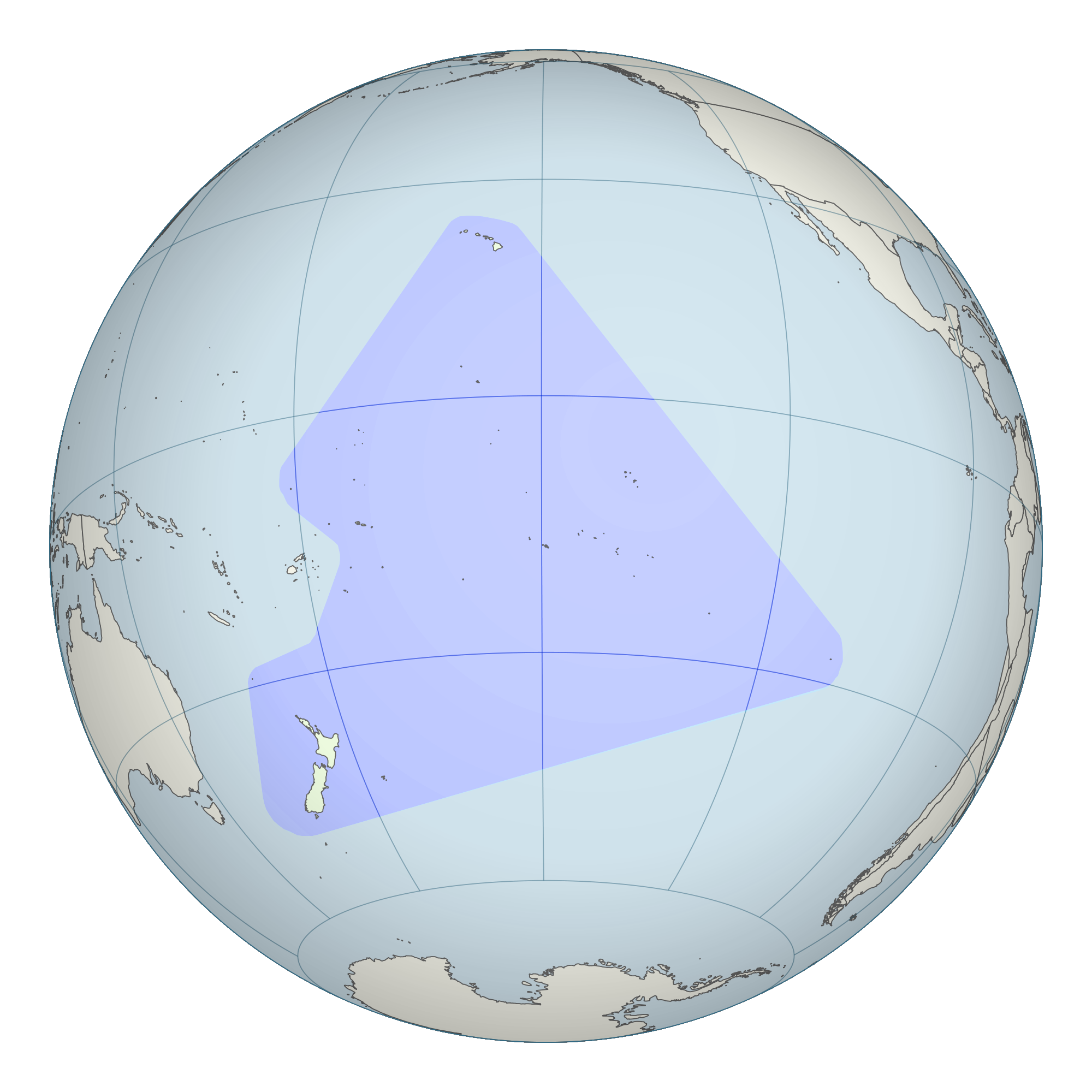 Polynesian triangle stretching from New Zealand in the south to Easter Island in the east and Hawaii in the north. This is a modification of File:French Polynesia (orthographic projection, yellowblue).svg.